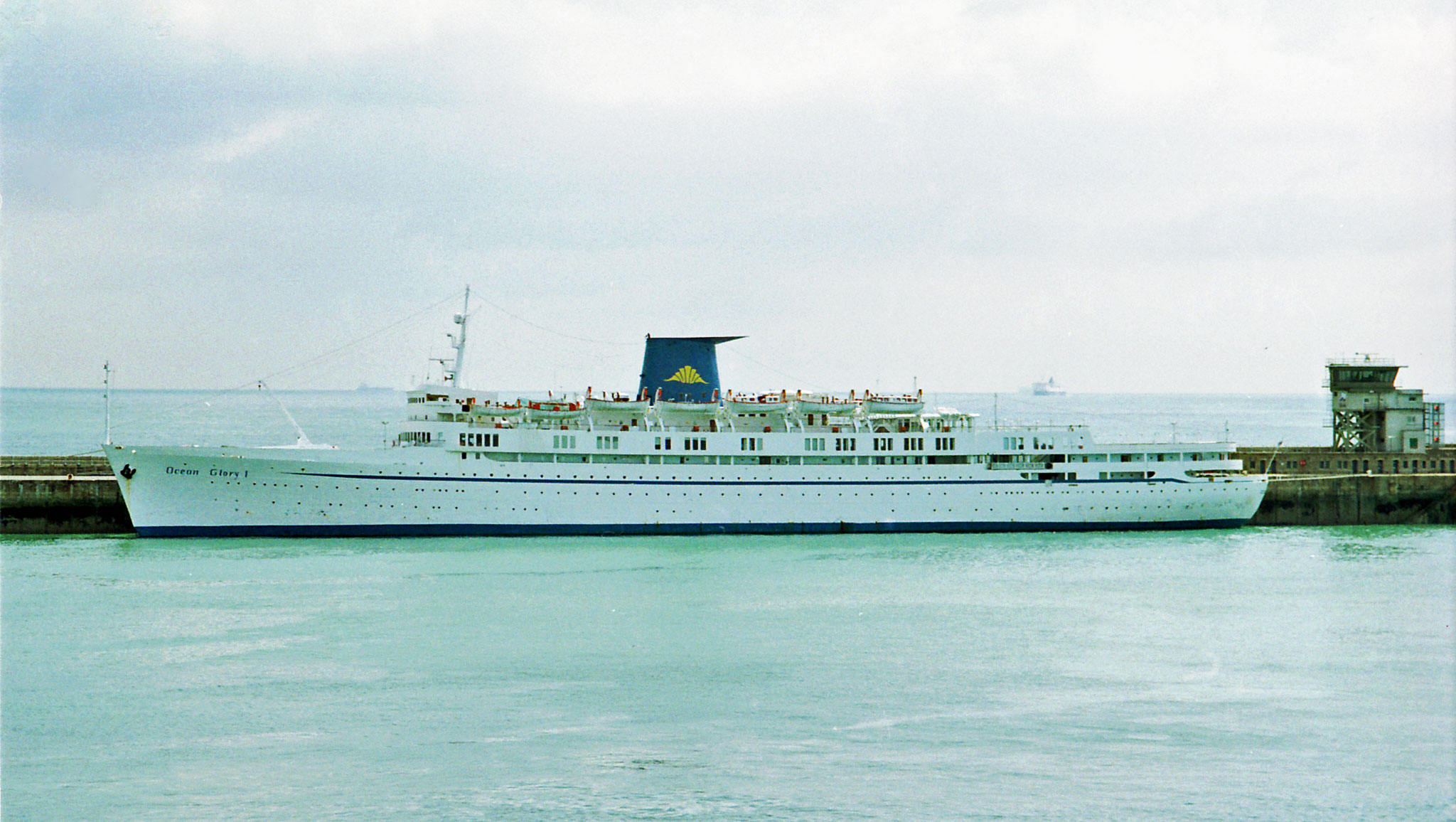 The cruise ship Ocean Glory I detained in Dover harbor on August 10, 2001.